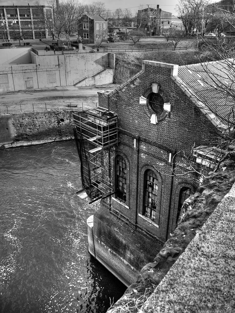 Great Falls of Paterson/S.U.M. Historic District